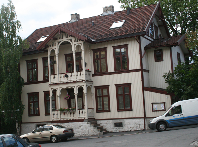 Tromsøgata 4 at Rodeløkka in Oslo, formerly local police station, now apartments